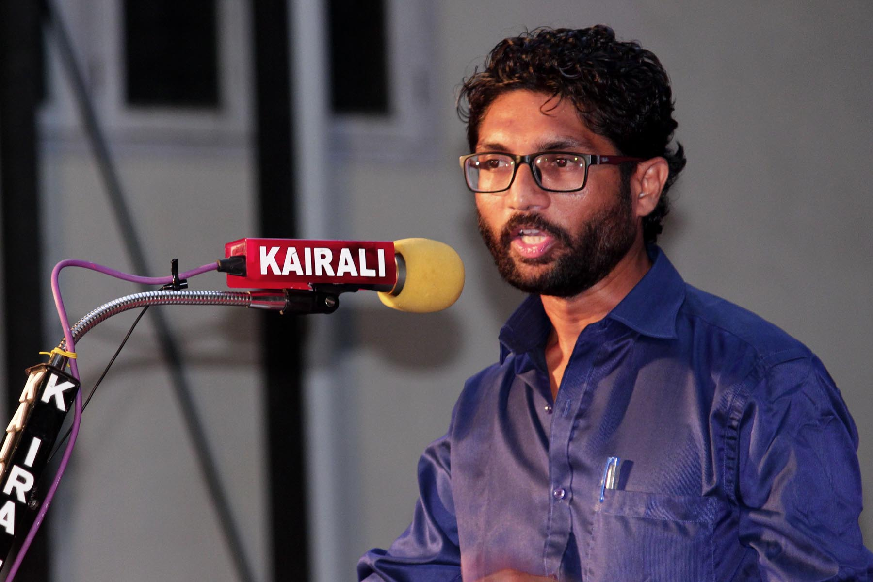 Jignesh Mewani speaks at the land rights announcement held at Thrissur.